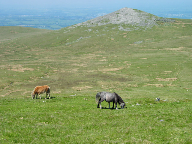 Gyrn from flanks of Drosgl Wild ponies grazing on the North-Western approach to Drosgl, with the rocky summit of Gyrn beyond. The Northern Carneddau offer solitude even in the height of Summer. Wild ponies, on the other hand, feature regularly in my walks.